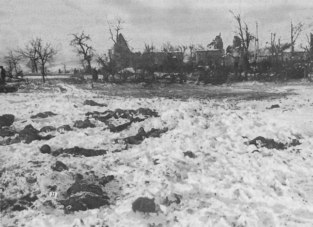 Malmedy Massacre Two.